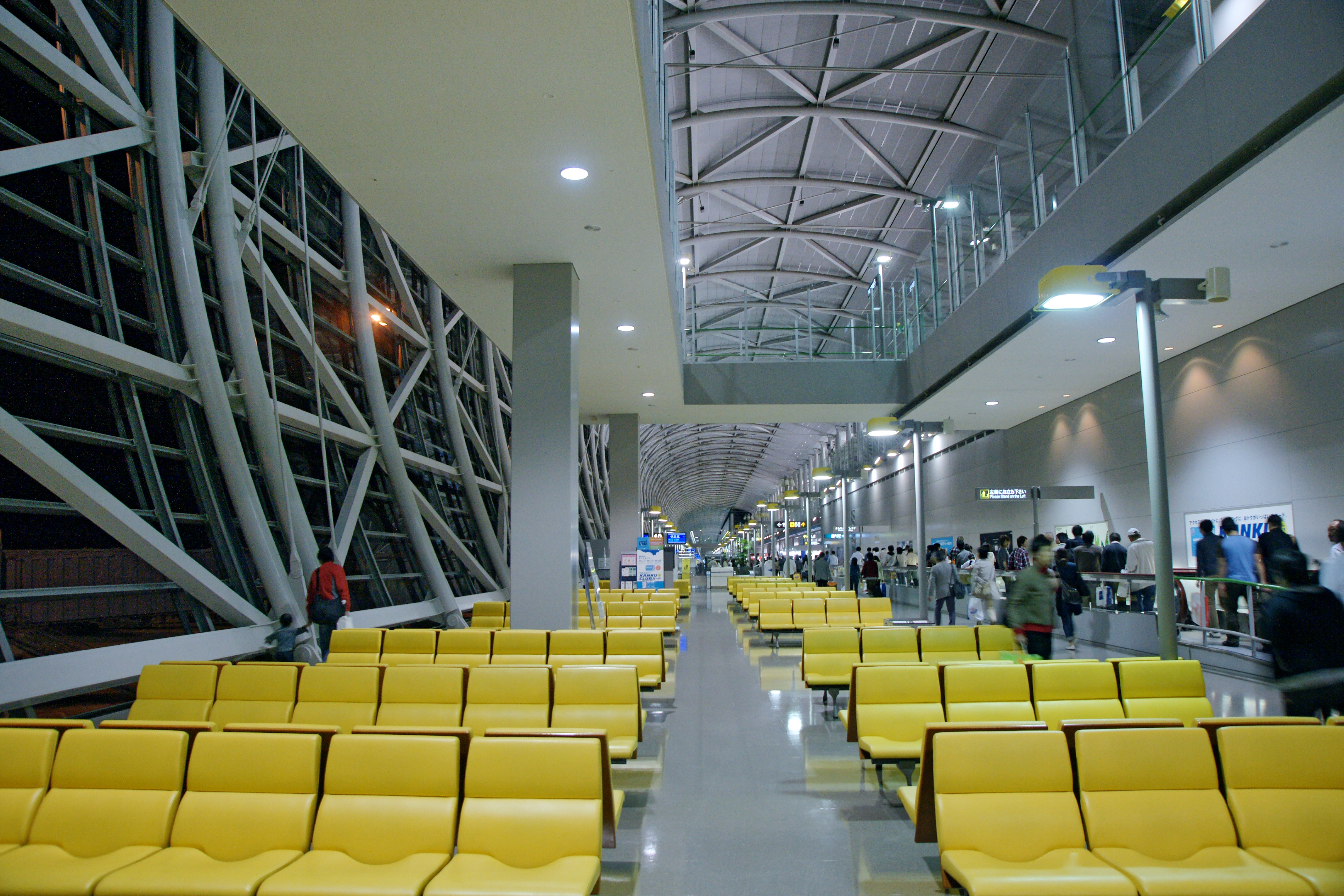 Kansai International Airport, Izumisano, Osaka prefecture, Japan